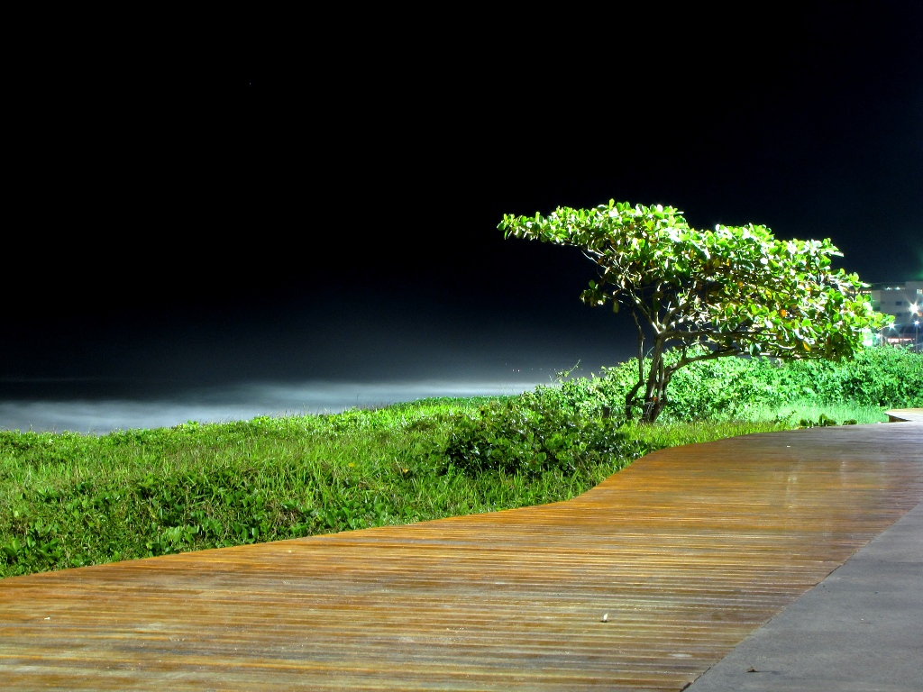 Deck of Beach Praia dos Cavaleiros by night at Macaé, Brazil.